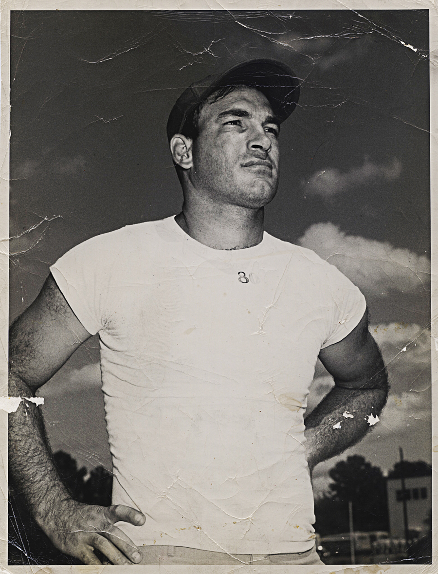 An unidentified photo of Merle Hapes, from the author's collection of photos.